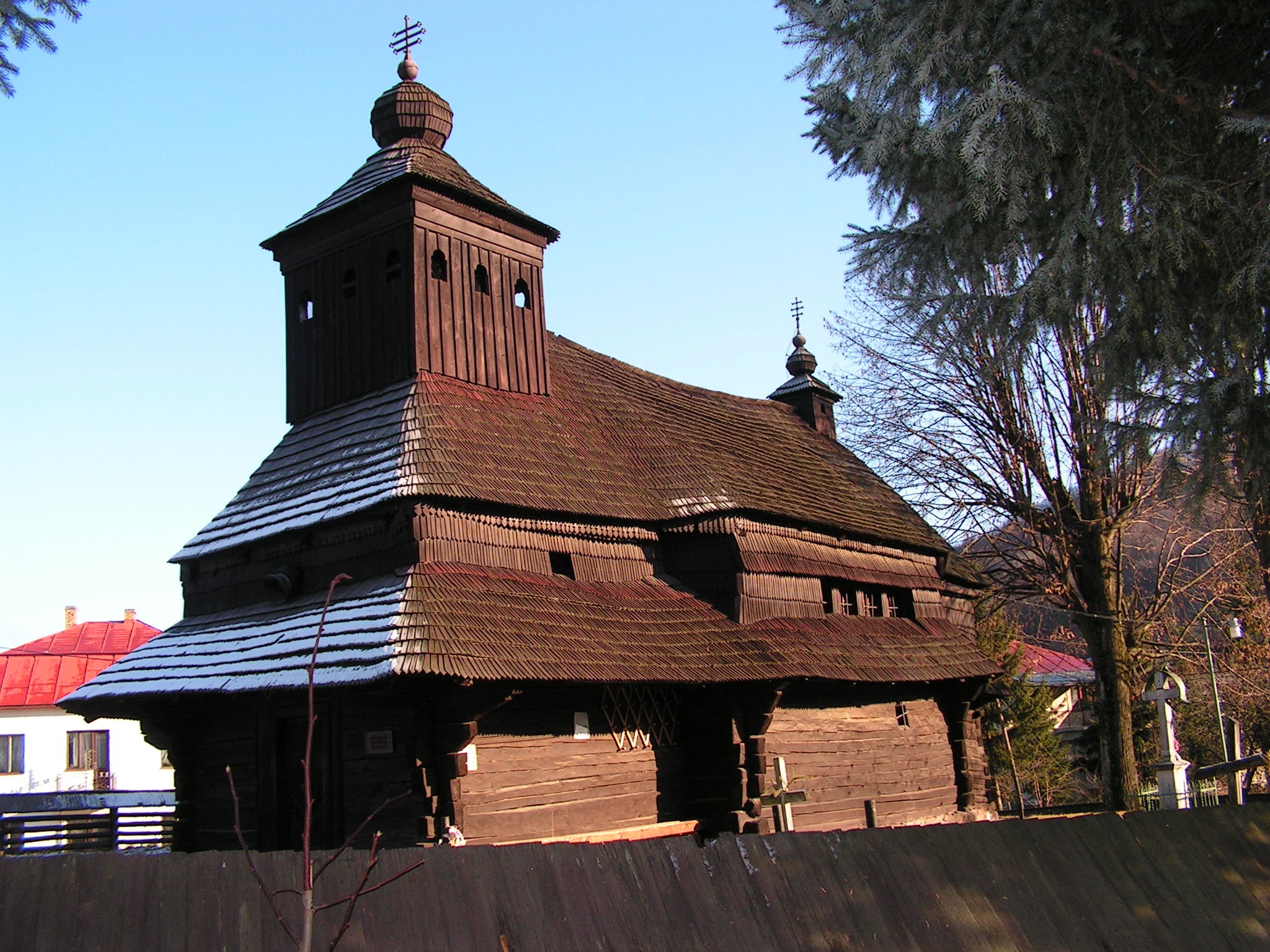 Wooden Church en Uličské Krivé